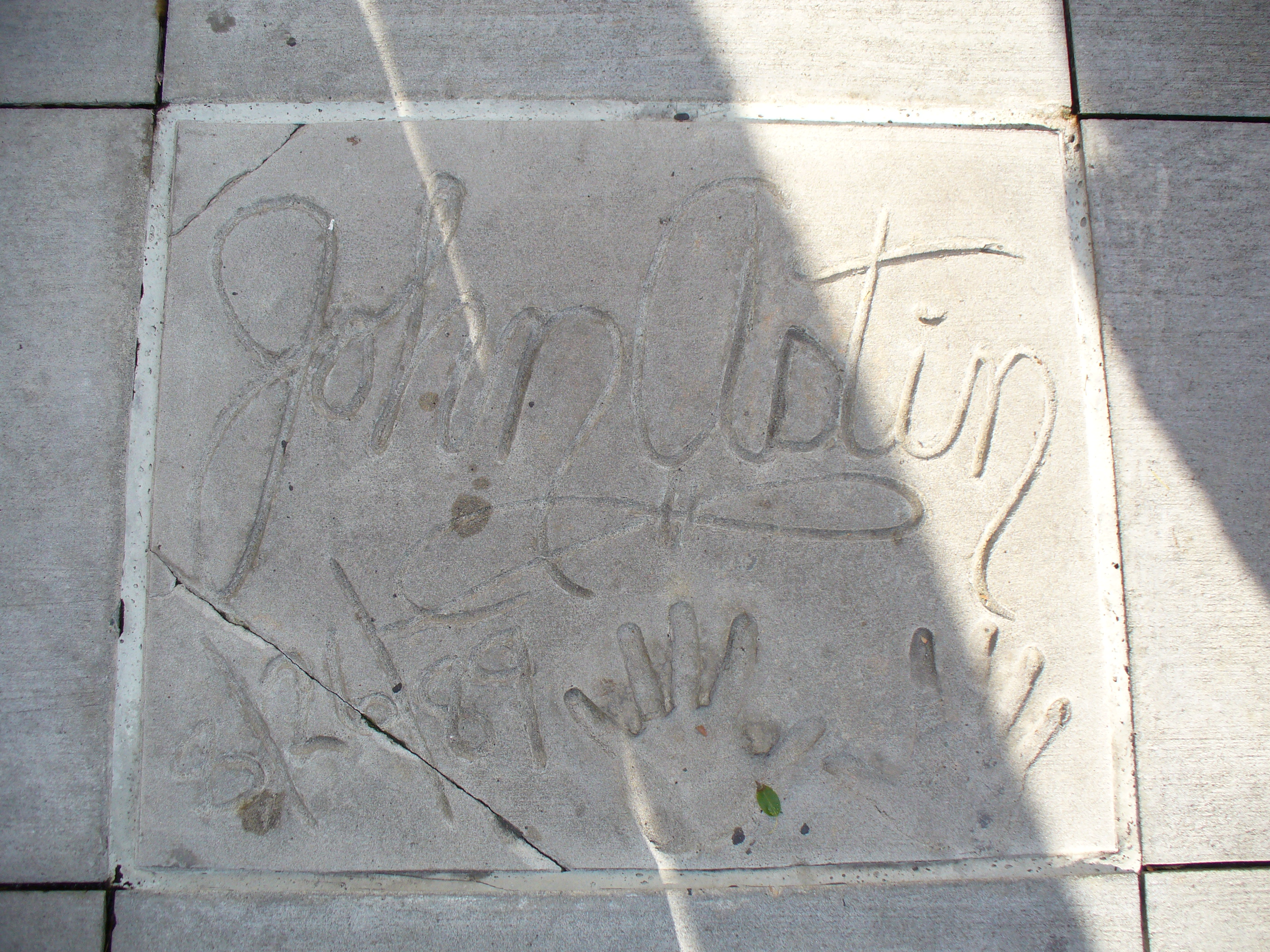 This photo depicts the handprints of John Astin (8/26/1989) in front of Hollywood Hills Amphitheater at Walt Disney World's Disney's Hollywood Studios theme park.